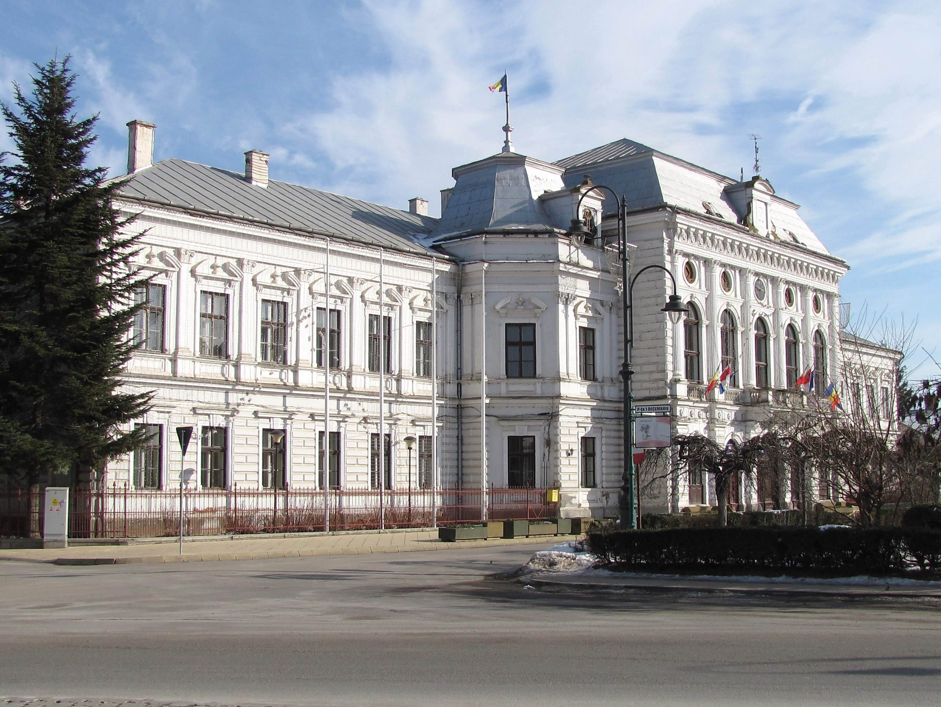 City Hall Turda - (28 December 1, 1918 Square)